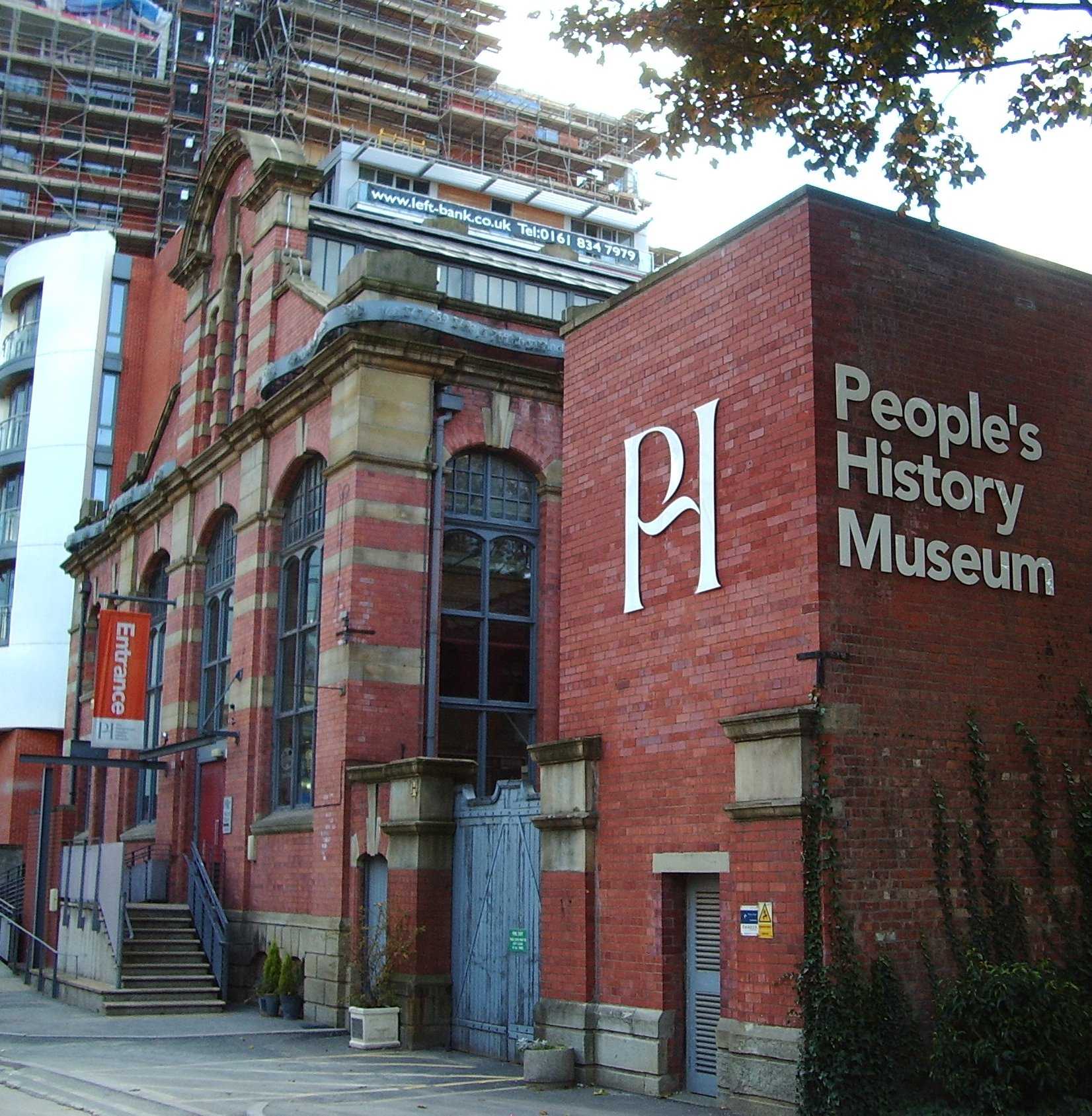 People's History Museum, photograph taken by Lmno on 9 Oct 2004